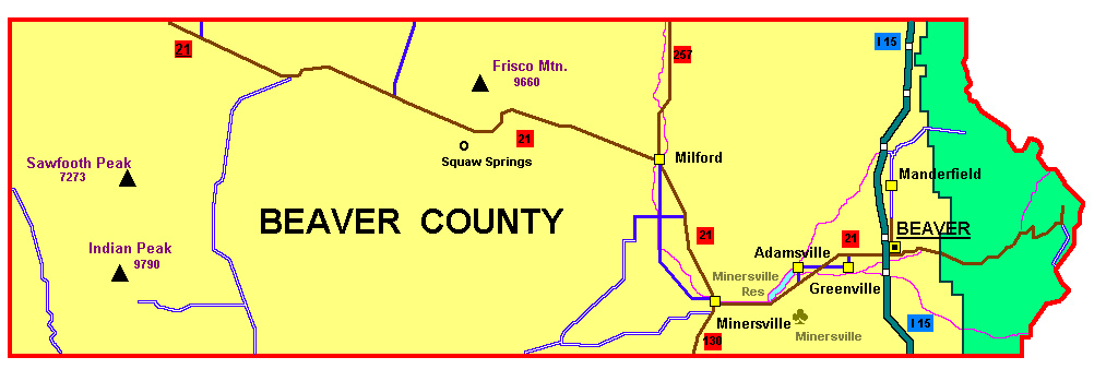 Beaver County (UT),Detail, selfmade graphic by R.Blauert Dk4hb